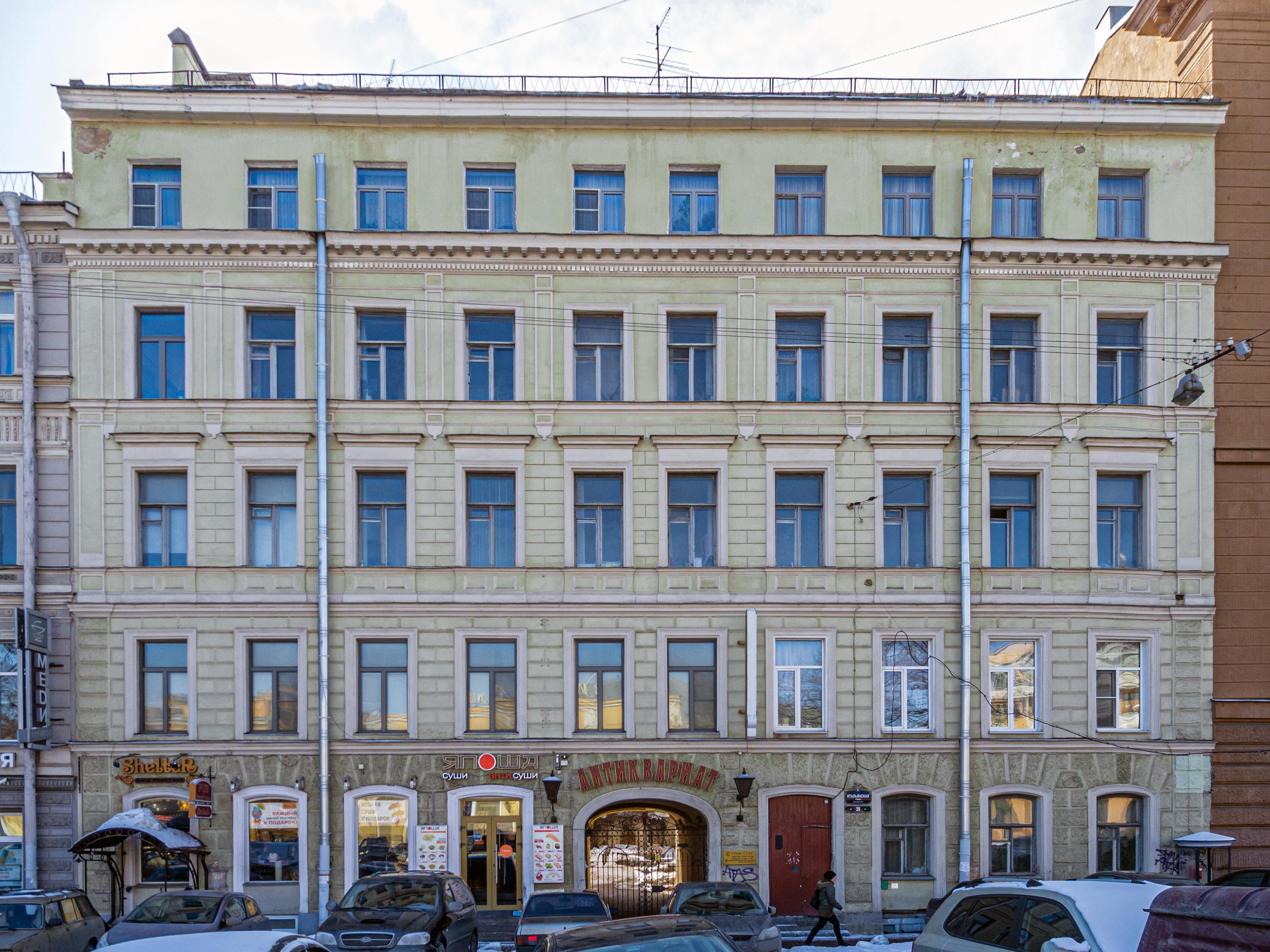 29, Italianskaya Street in Saint Petersburg.